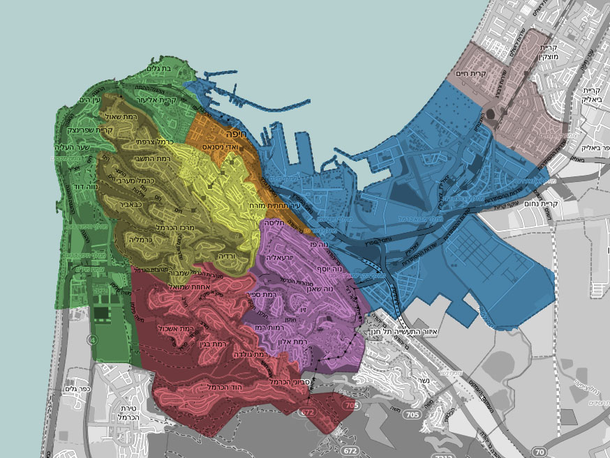 This map may be incomplete, and may contain errors. Don't rely solely on it for navigation.